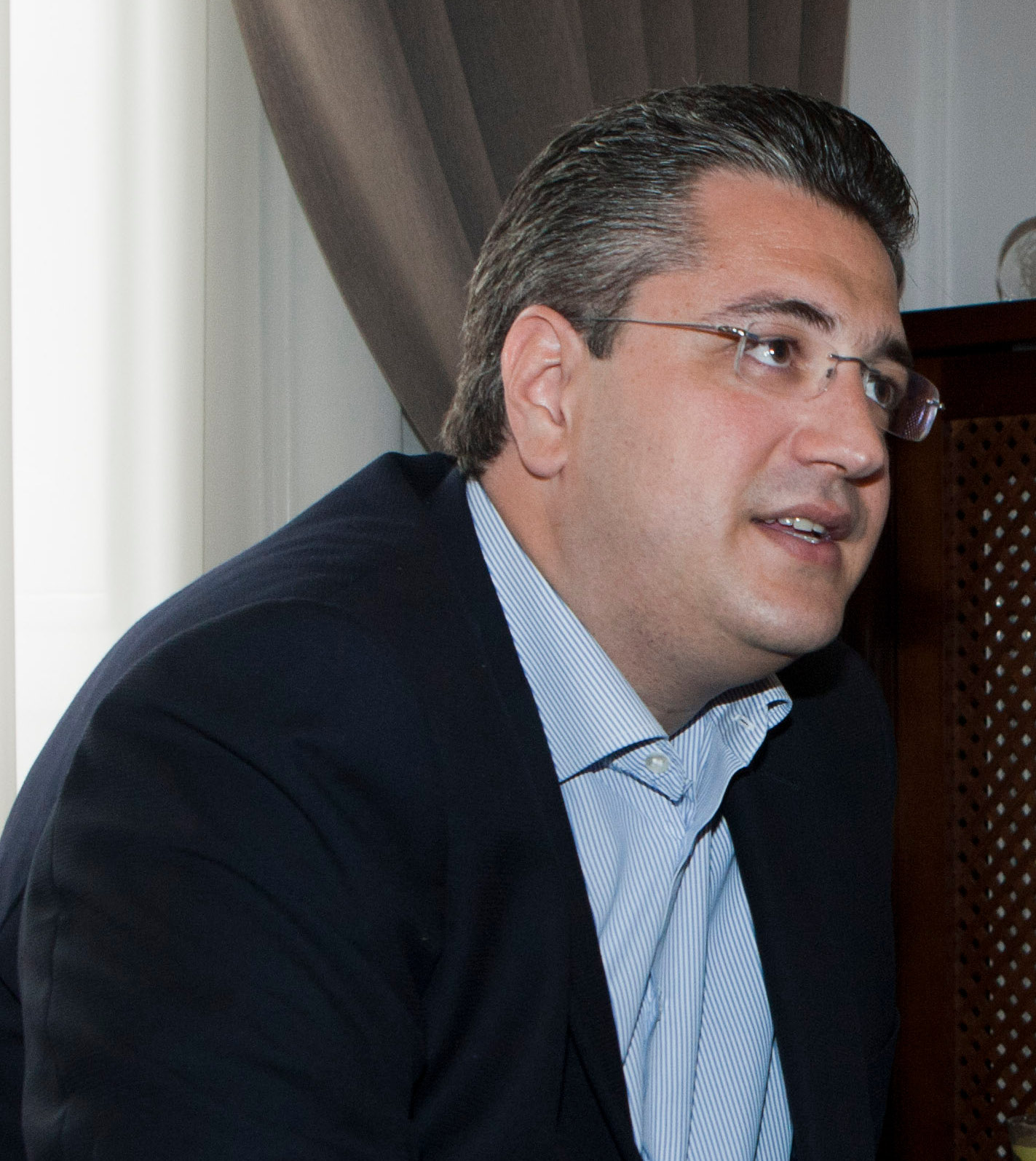 Central Macedonia governor Apostolos Tzitzikostas in 2014